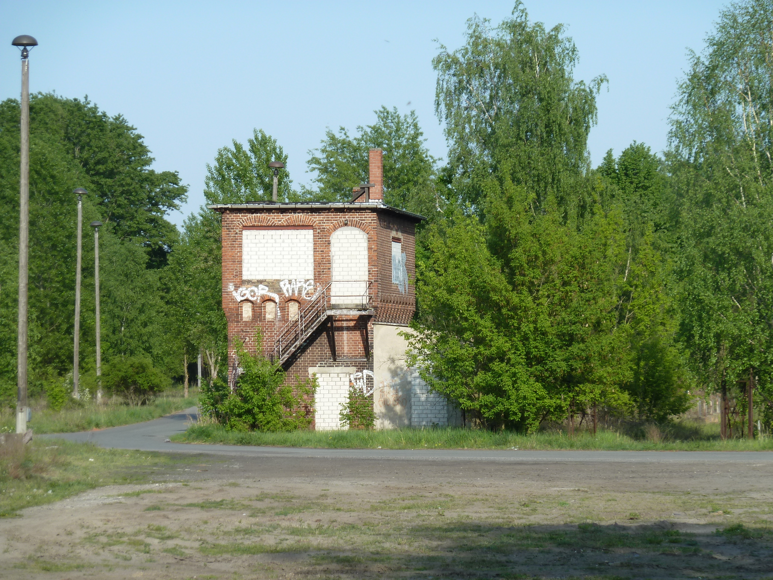 Wustermark Rangierbahnhof, unused switch area in a 1945 closed section of the yard.